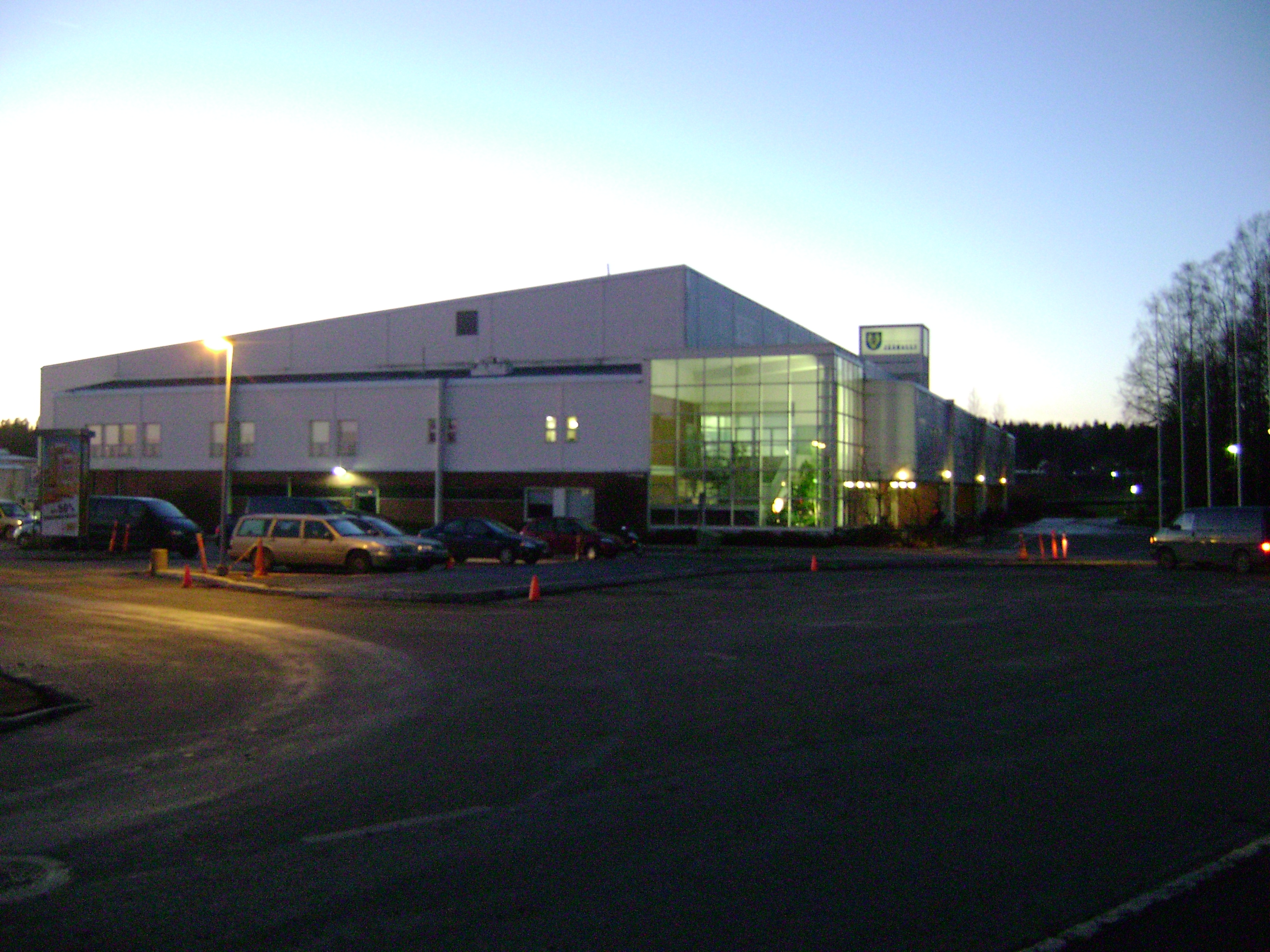 Järvenpää ice hall